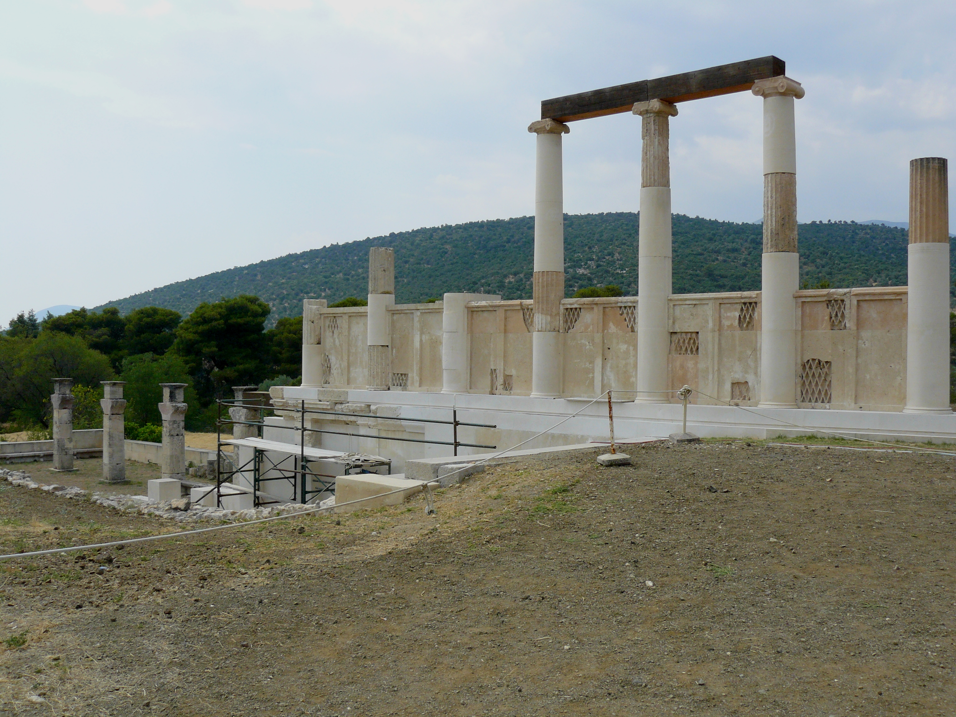 Abaton of the Asclepios's temenos (a piece of land dedicated to a god), in Epidauros, Greece, 4th century BC